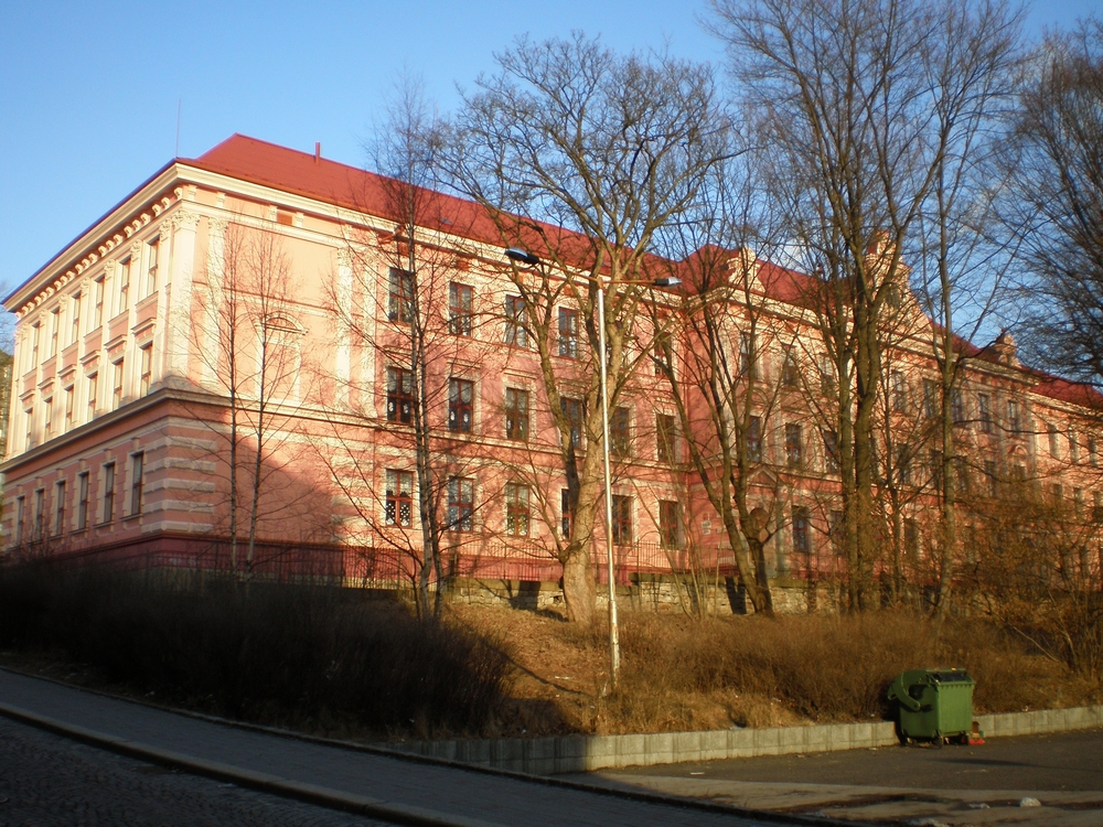 Aš, Czech republic, 1st school in Kamenná street